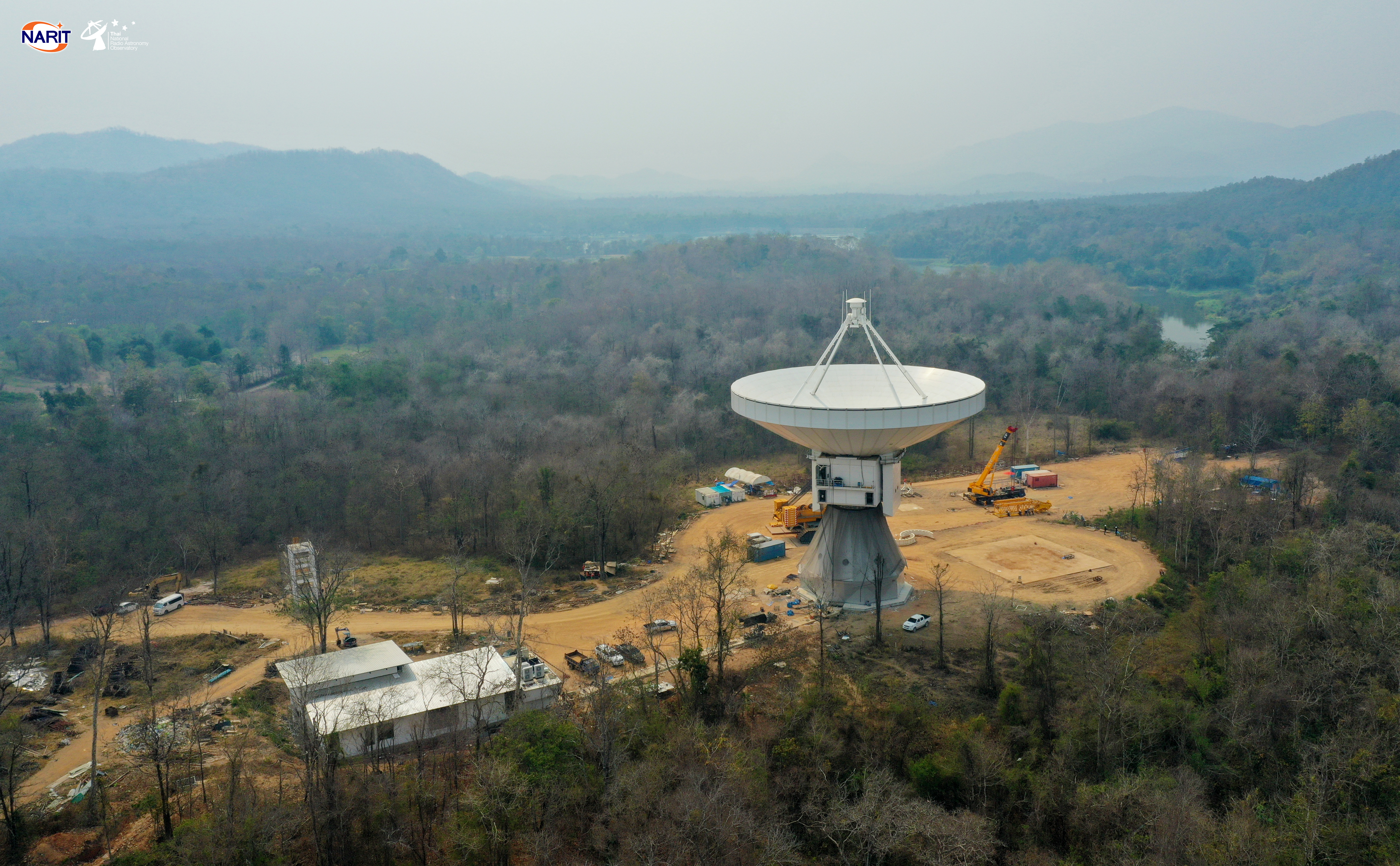 default